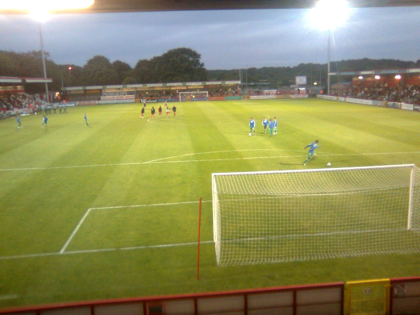 Lokking from the south stand to the north terrace at the Lamex Stadium.